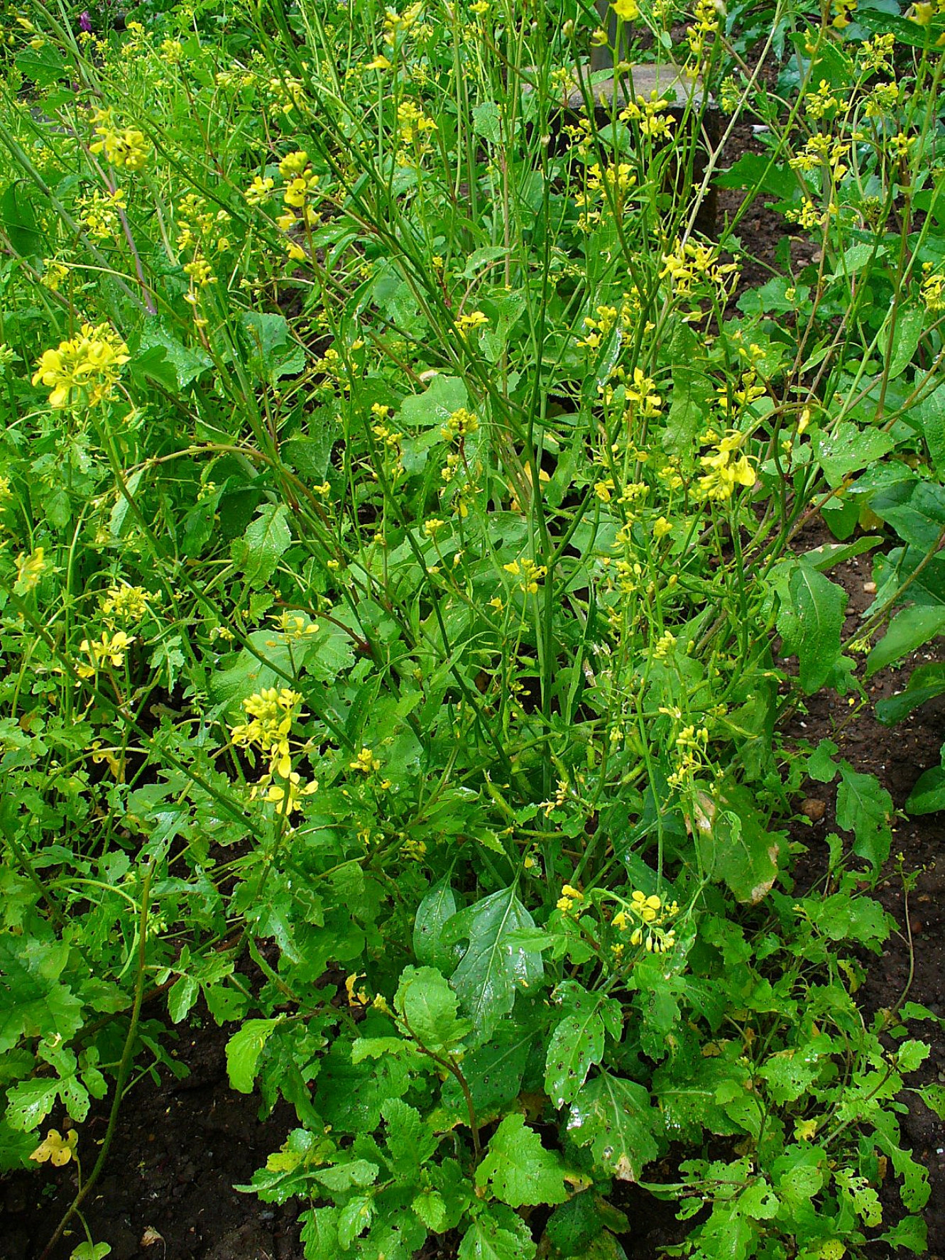 Brassica nigra, Brassicaceae, Black Mustard, habitus; Botanical Garden KIT, Karlsruhe, Germany. The dried seeds are used in homeopathy as remedy: Sinapis nigra (Sin-n.)